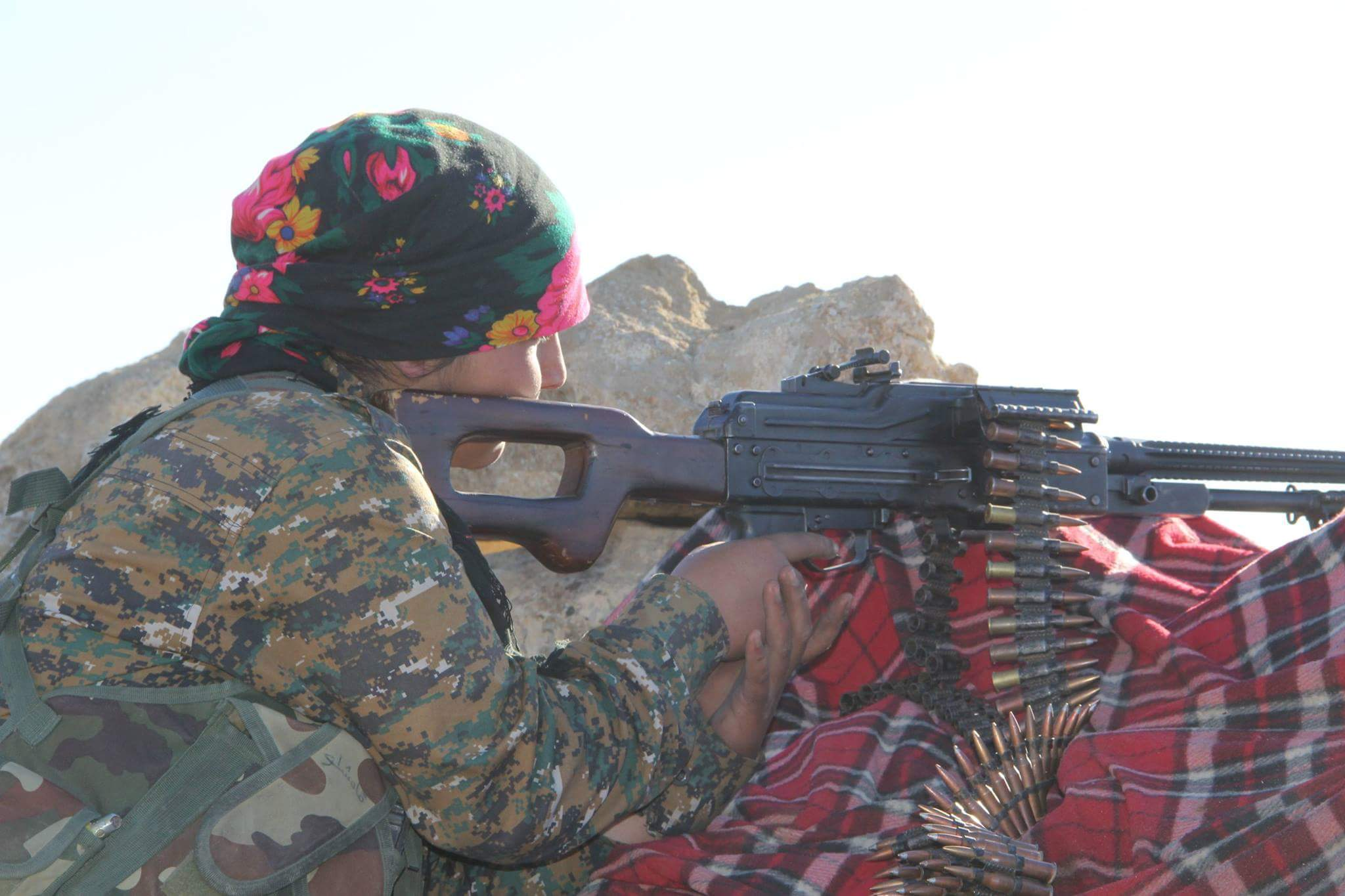 Shingal-Mosul Offensive